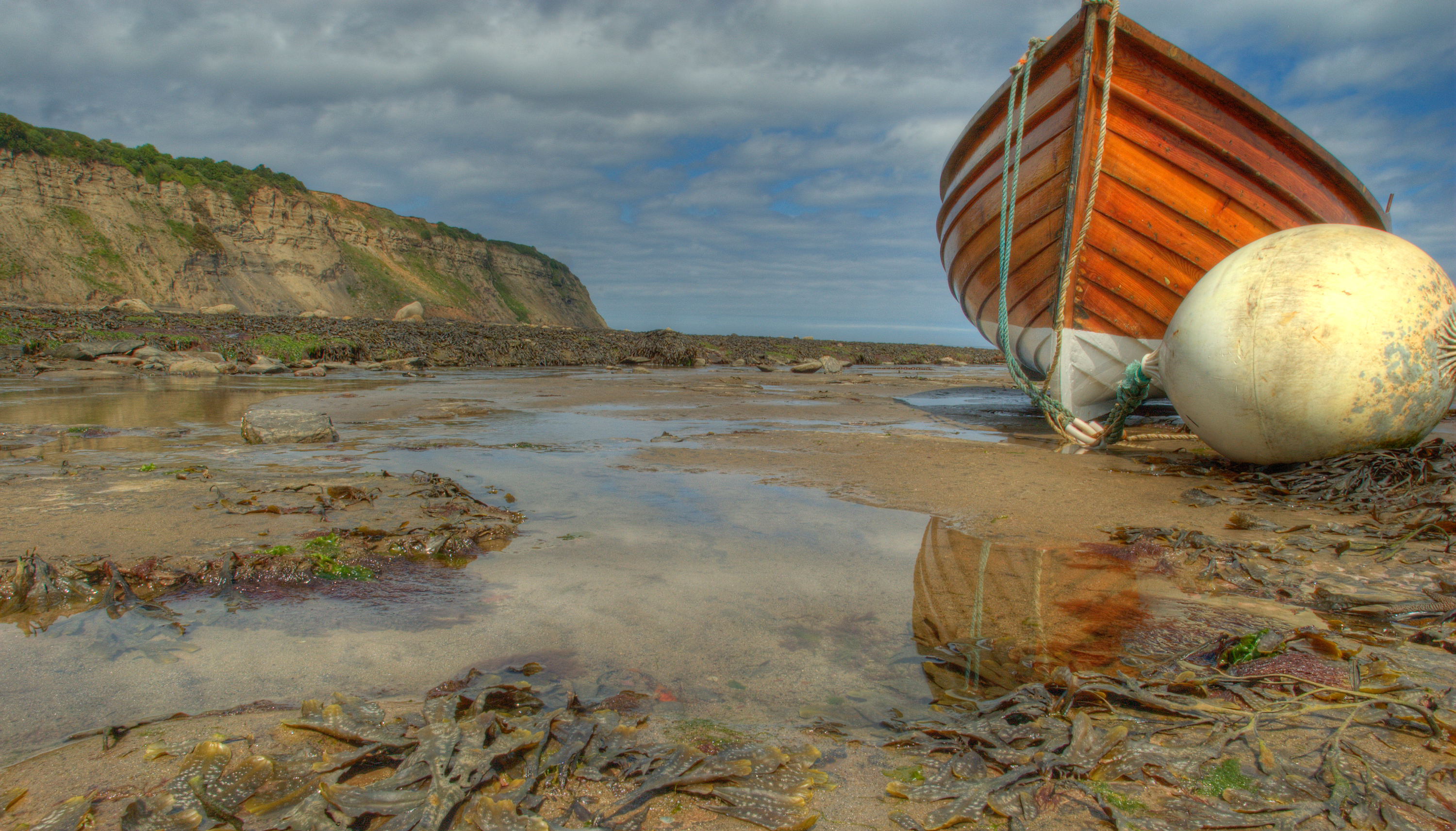 large on black, white, stream on black, white, interestingness, white (generated by [darckr]) On the beach. Some light HDR. Become a fan on facebook